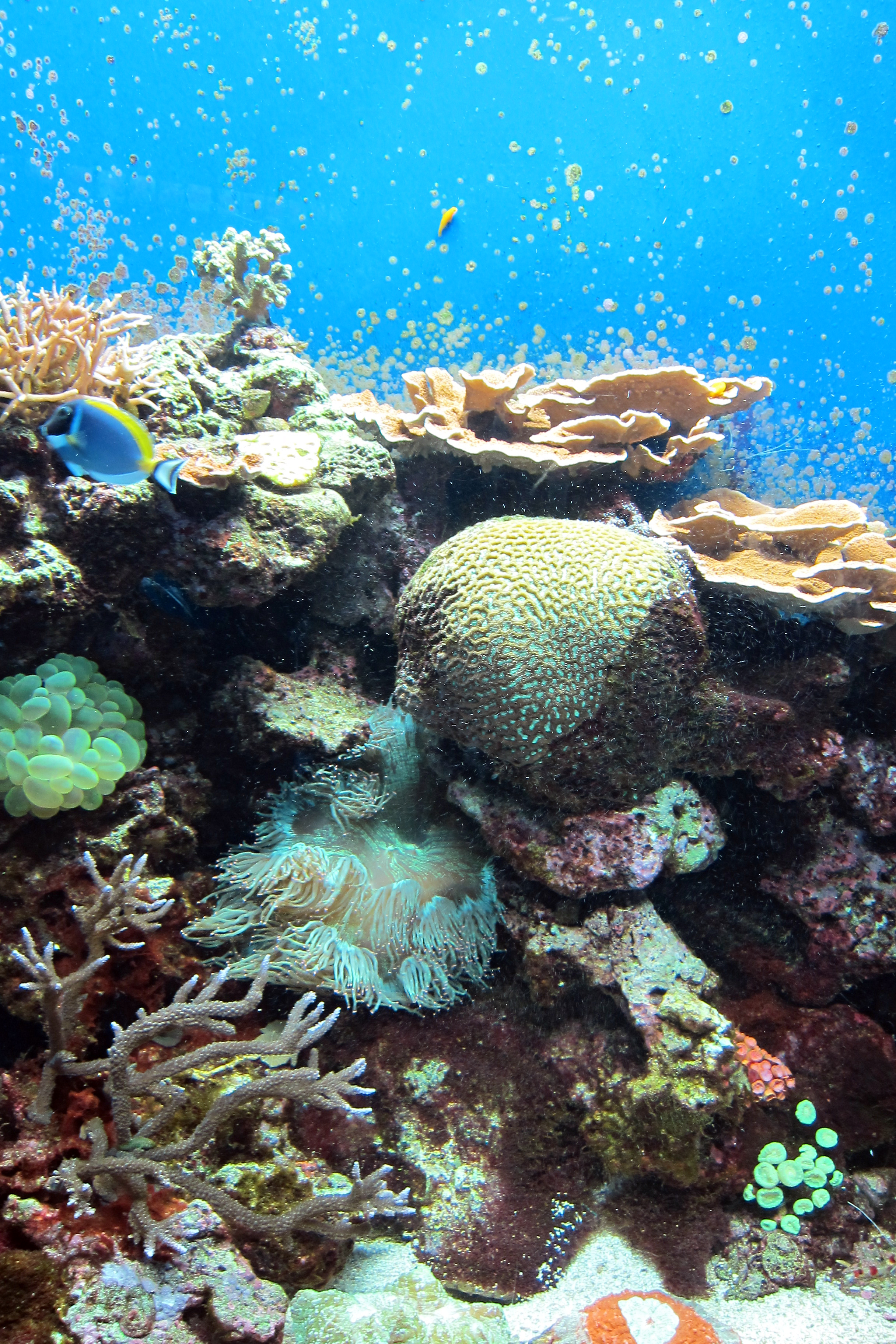 Kyoto Aquarium (京都水族館), Kyoto, Kyoto prefecture, Japan